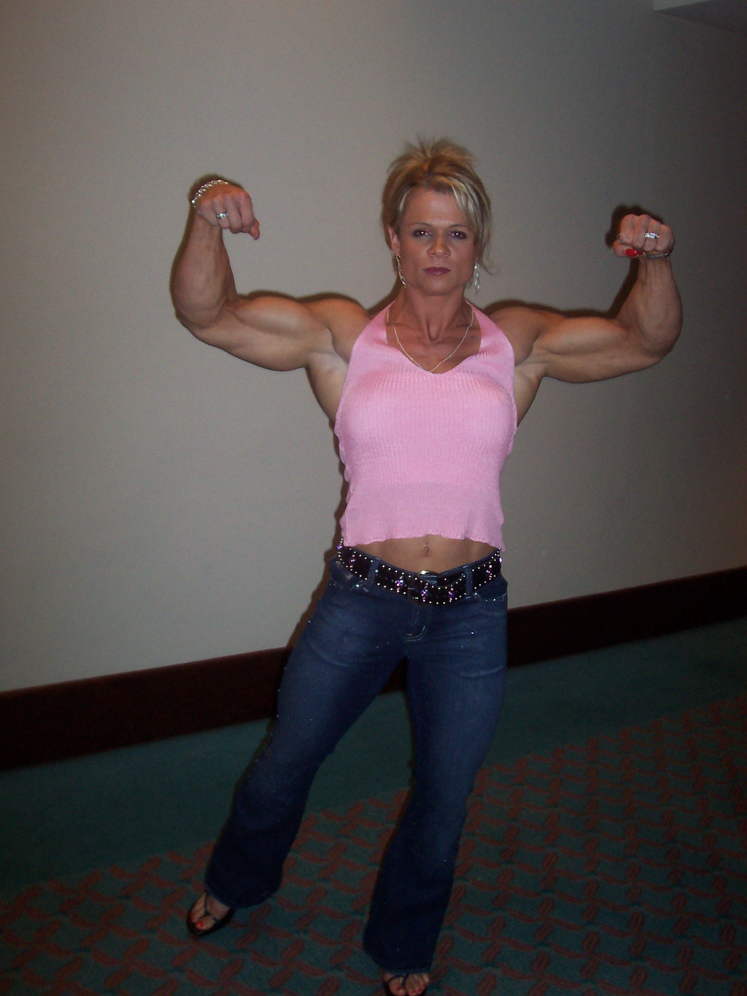 FBB doing front double bicep shot